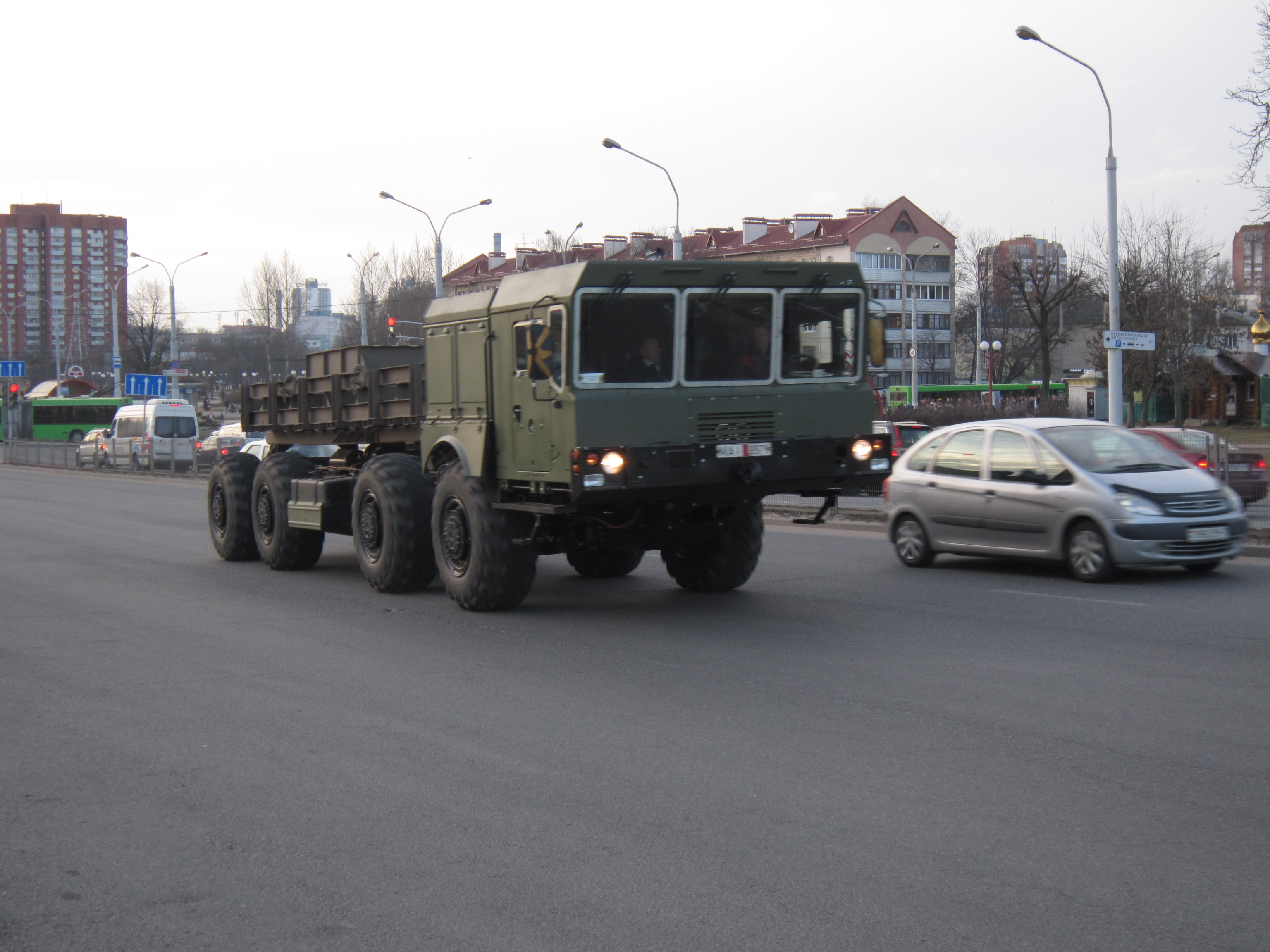 MZKT-7930 chassis in Minsk (Belarus).